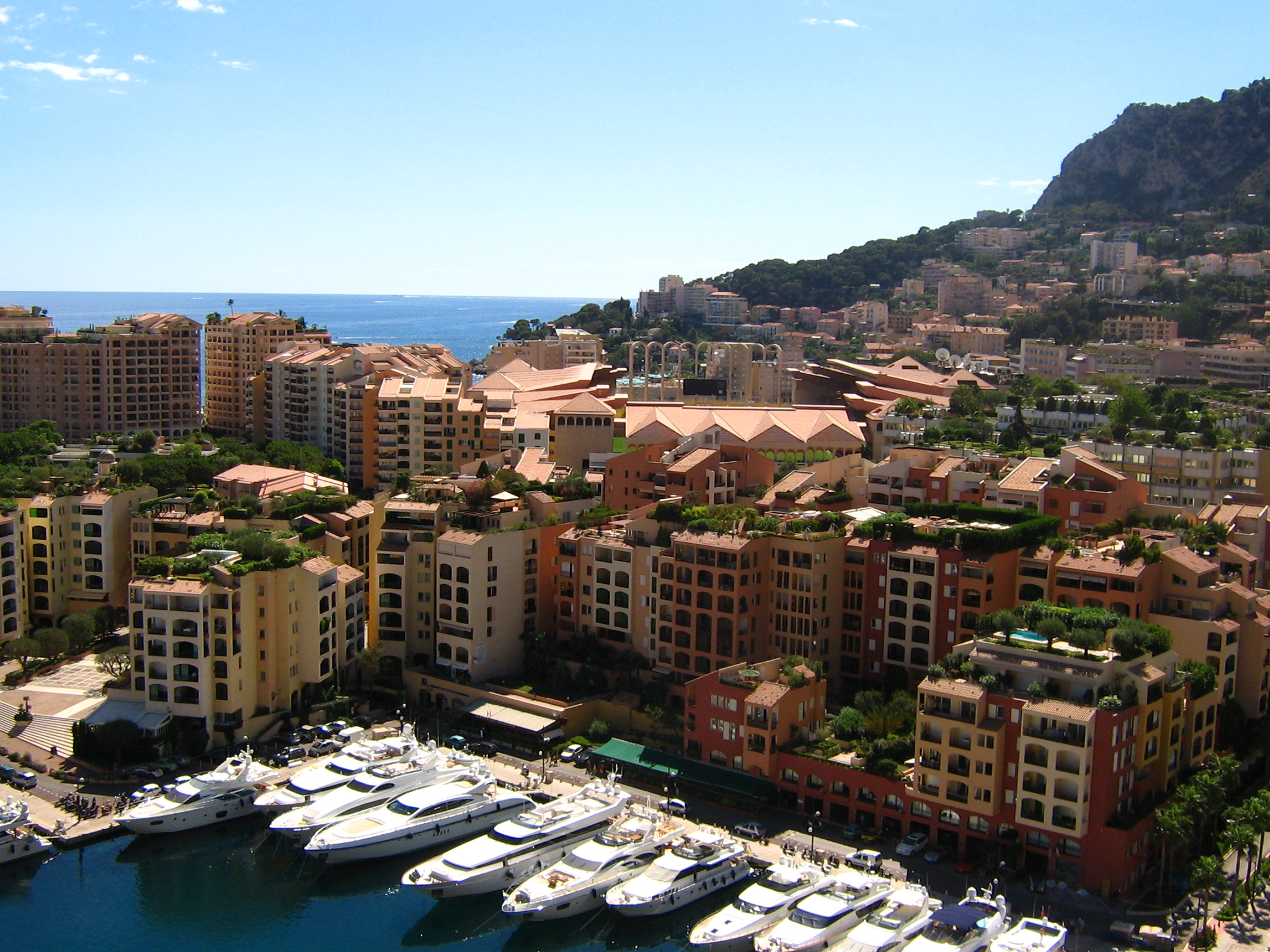 Monaco fontvieille view from Rock of Monaco